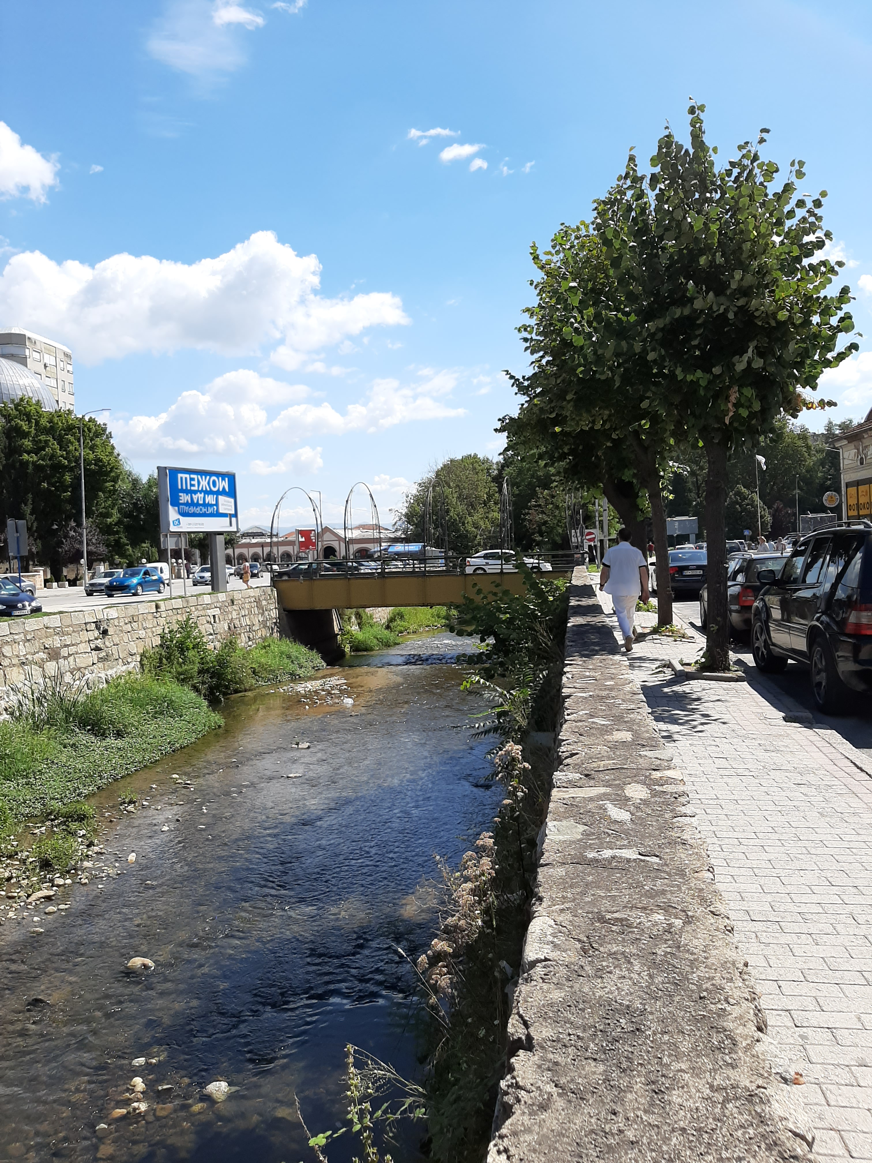 Судски мост, мост на реката Драгор во Битола